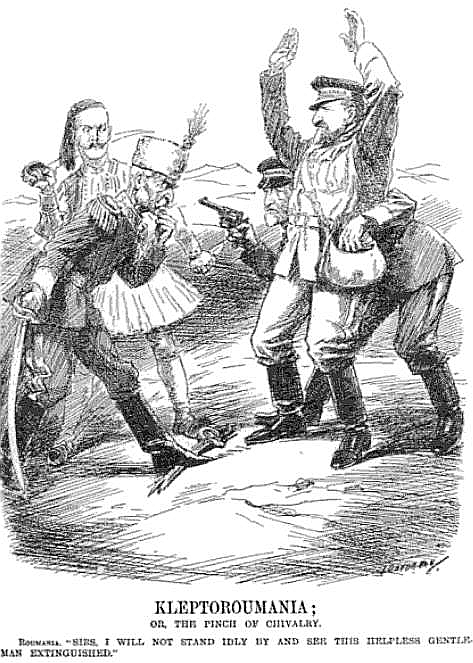 KLEPTOROUMANIA. Punch cartoon favourable to Bulgaria, the aggressor of the Second Balkan War. King Carol I of Romania points his pistol at King Petar of Serbia and King Constantine of Greece while he steals Southern Dobrudja from the helpless Tsar Ferdinand of Bulgaria. The title "KLEPTOROUMANIA" is a pun on kleptomania, the mental disorder of impulsive stealing for the sake of stealing. Roumania: "SIRS, I WILL NOT STAND IDLY BY AND SEE THIS HELPLESS GENTLEMAN EXTINGUISHED."